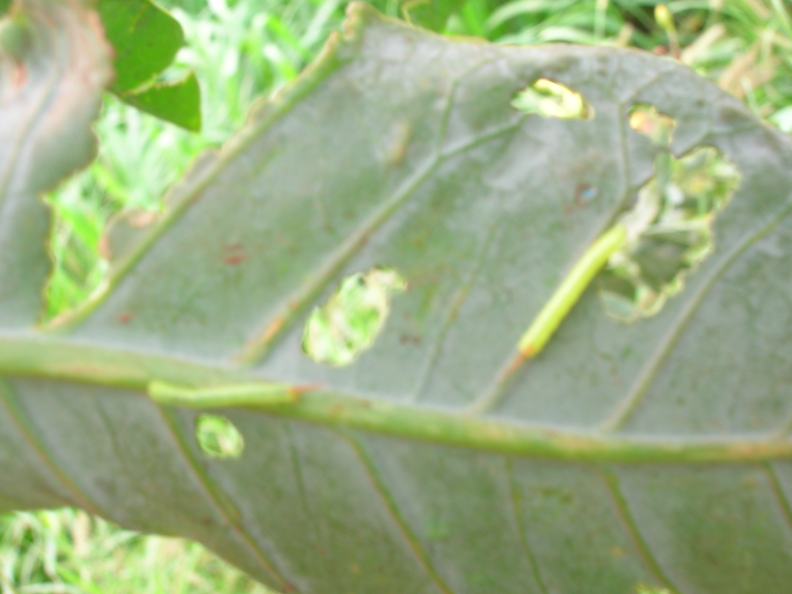 Nicotiana glauca (leaf with Manduca blackburni larva). Location: Maui, Kahului Airport